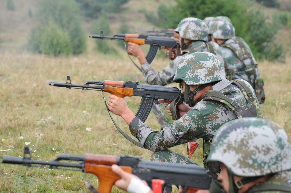 Sino-Romanian army mountain troops joint training "Friendship Action 2009".